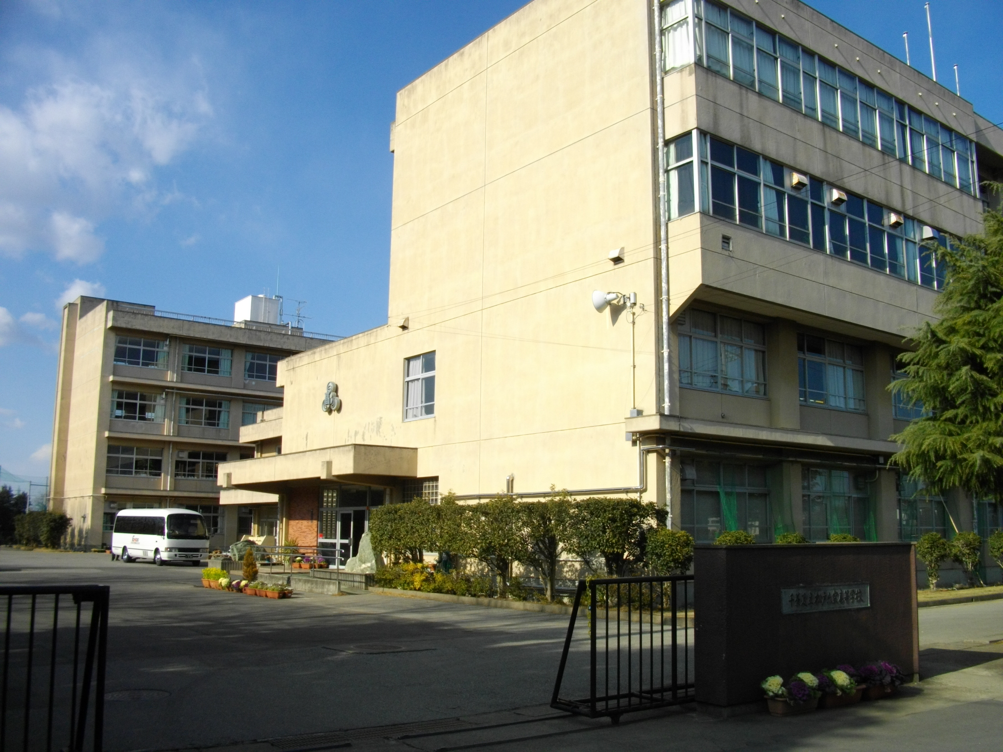 Matsudo-Mutsumi High School